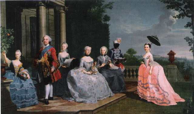 Frederick Charles, Duke of Schleswig-Holstein-Sonderburg-Plön and his family in the garden of Schloss Traventhal, 1759; From left: his youngest daughter, Princess Louise Albertine, Princess of Anhalt-Bernburg, Duke Friedrich Carl, his oldest daughter, Princess Friederike Sophie, Countess of Erbach-Schönberg, his wife Duchess Christine, born Reventlow, his mother Dorothea Christine, born Aichelberg, an African servant, and finally his second daughter, Princess Charlotte Amalie, Duchess of Schleswig-Holstein-Sonderburg-Augustenburg.